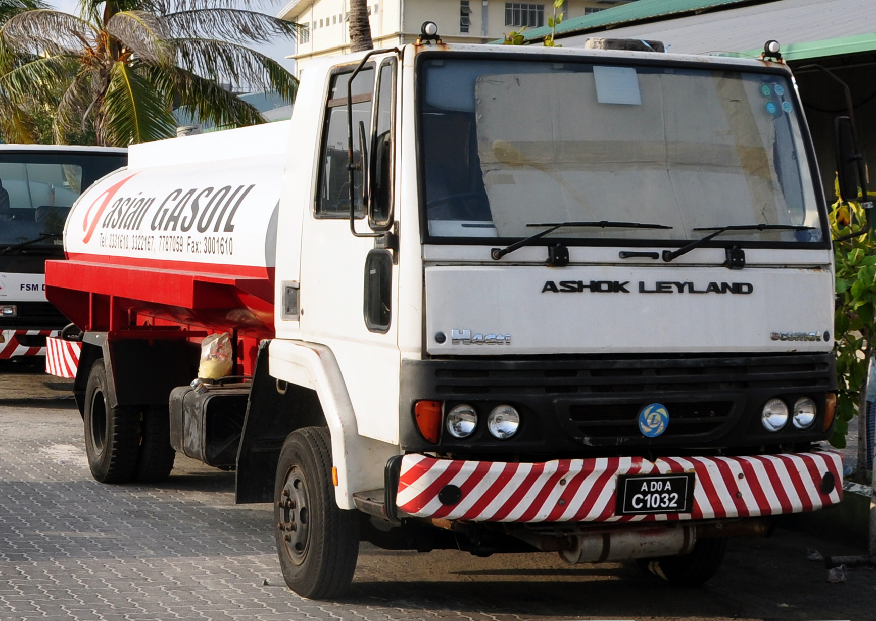 Ashok Leyland Ecomet 912 tanker truck in Malé, Maldives